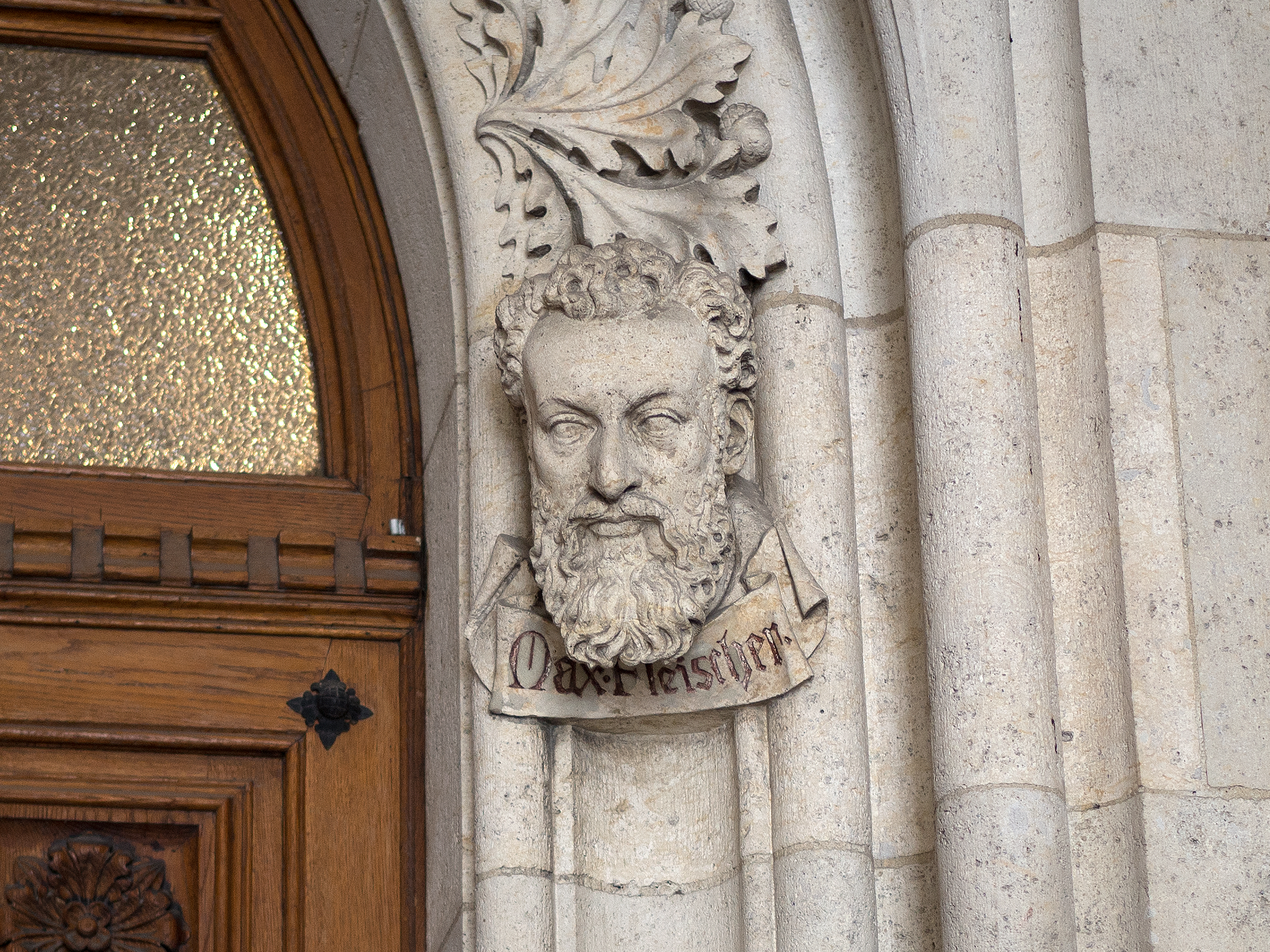 Bust of the architect Max Fleischer (1841–1905) at the entrance of the Vienna City Hall